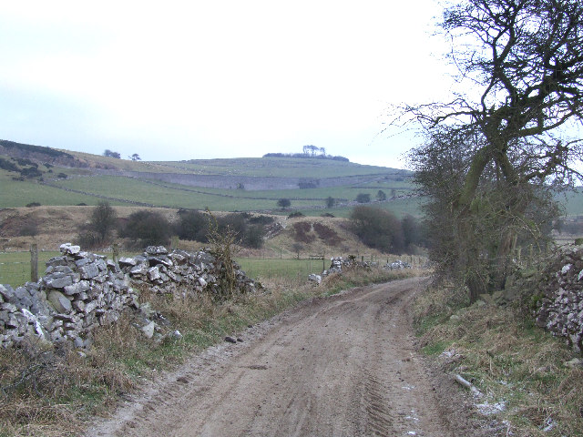 Looking towards the High Peak Trail and Minninglow Hill.